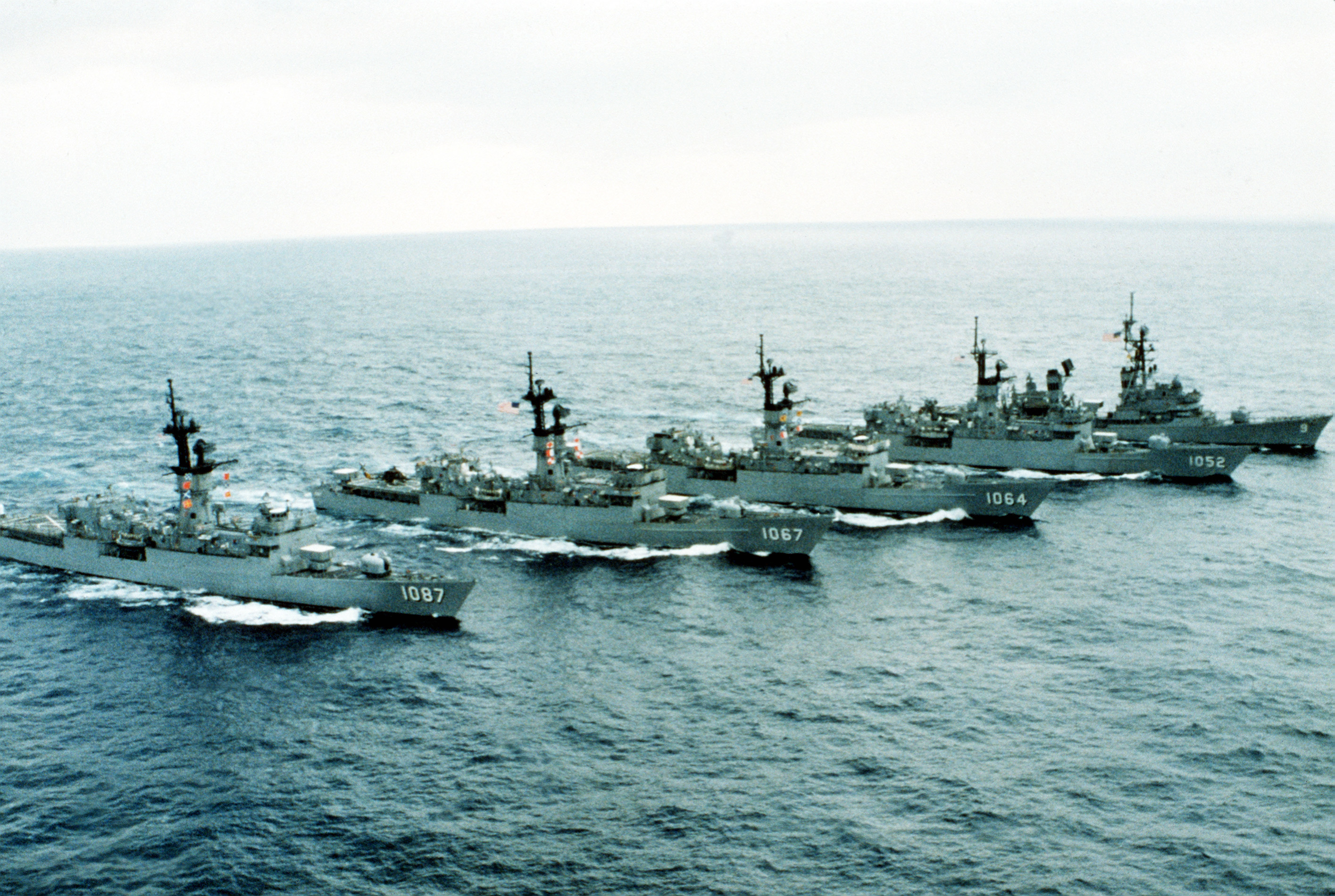 Five U.S. Navy ships of the aircraft carrier USS Midway (CV-41) battle group steam alongside one another in the Indian Ocean on 1 October 1987. The ships are, from left to right: the frigates USS Kirk (FF-1087), USS Francis Hammond (FF-1067), USS Lockwood (FF-1064) and USS Knox (FF-1052) and the guided missile destroyer USS Towers (DDG-9).